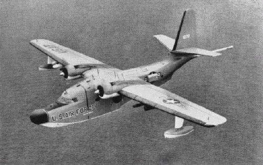 A Grumman SA-16B(ASW) Albatross in 1961. The SA-16B had been used by the U.S. Air Force as search and rescure aircraft. Starting in 1961 36 were converted to SA-16B(ASW) anti-submarine aircraft, which were used by Norway, Greece and Spain. Later these aircraft were designated SHU-16B.